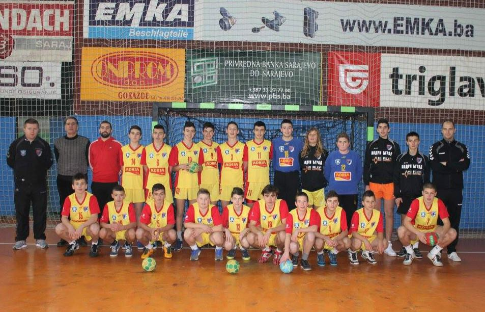 Handball Club Visegrad